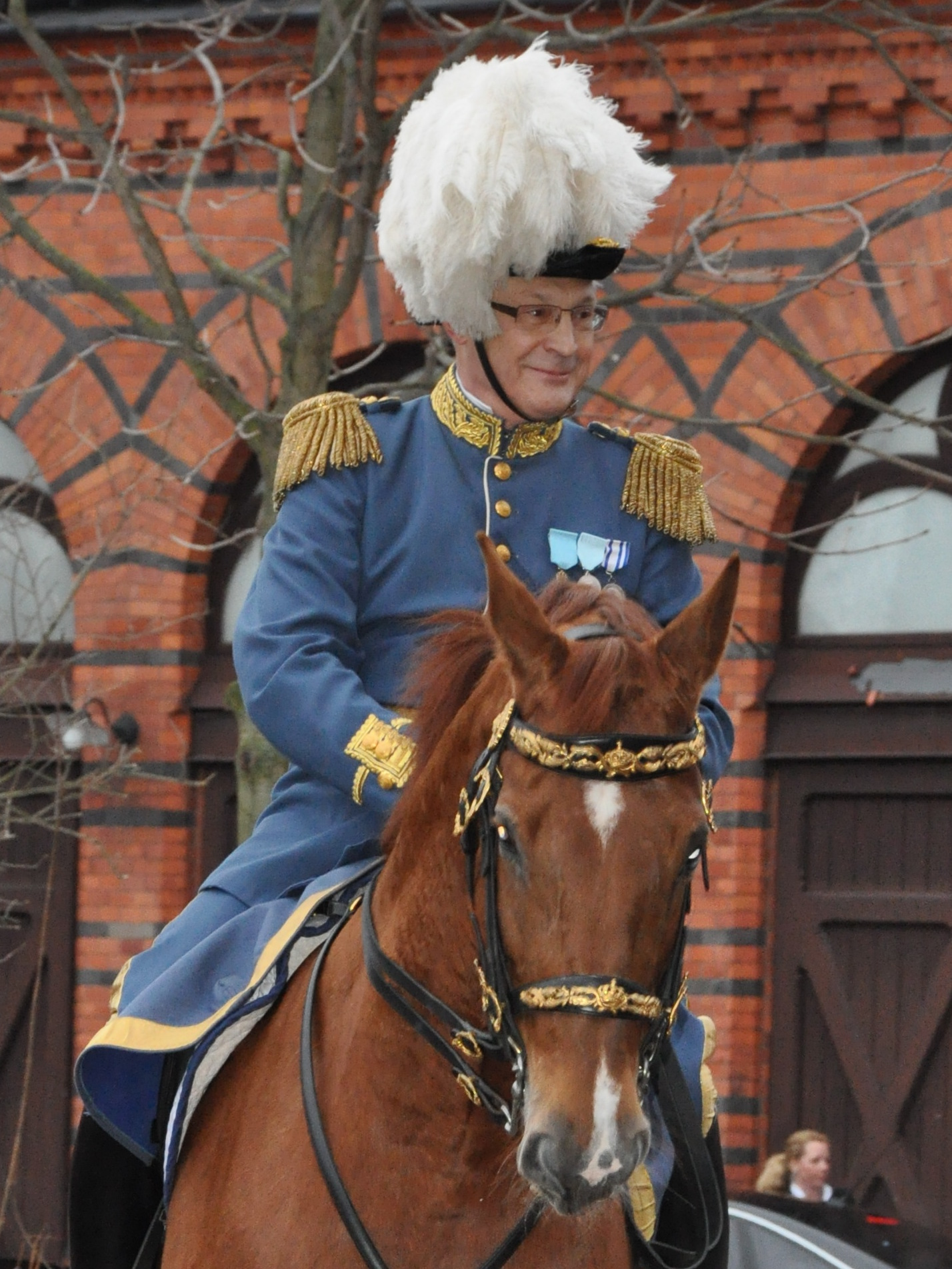 Mertil Melin, born 1945, Swedish Lieutenant General.